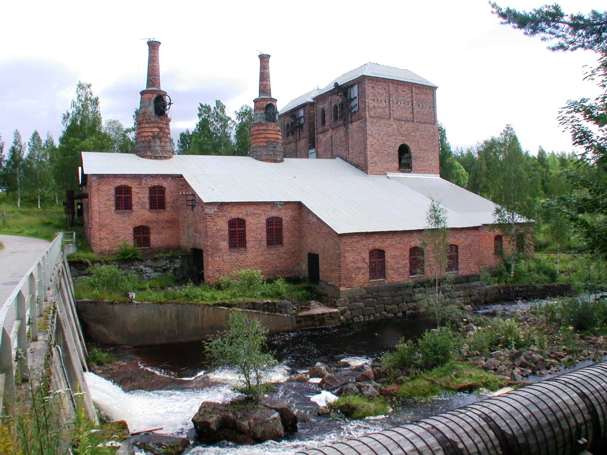 Jädraås blast furnaces, Blast furnaces in Jädraås, Ockelbo, Sweden.